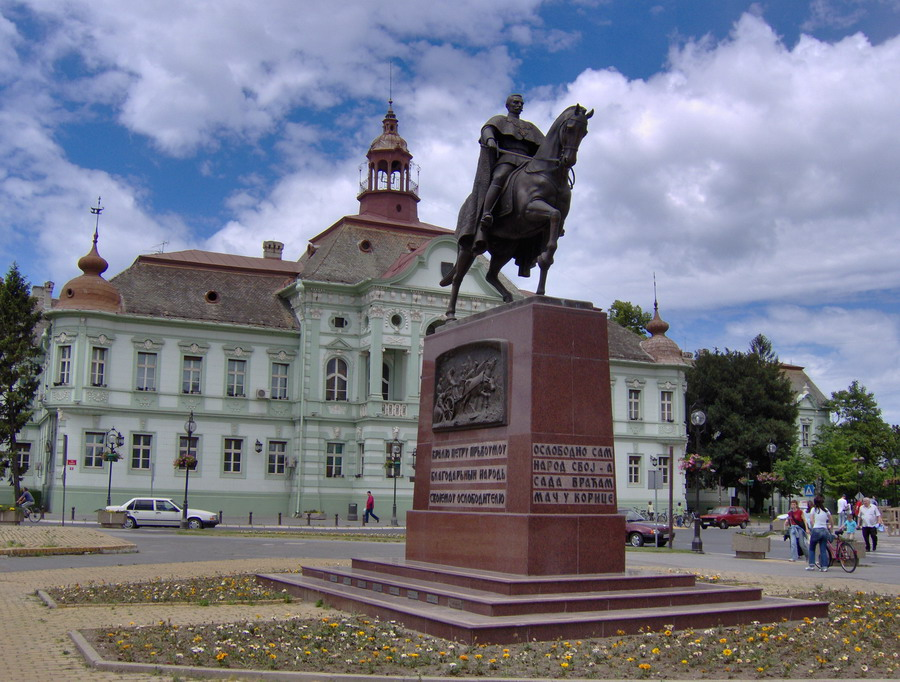 Zrenjanin City Hall and monument of King Peter I, May 2006